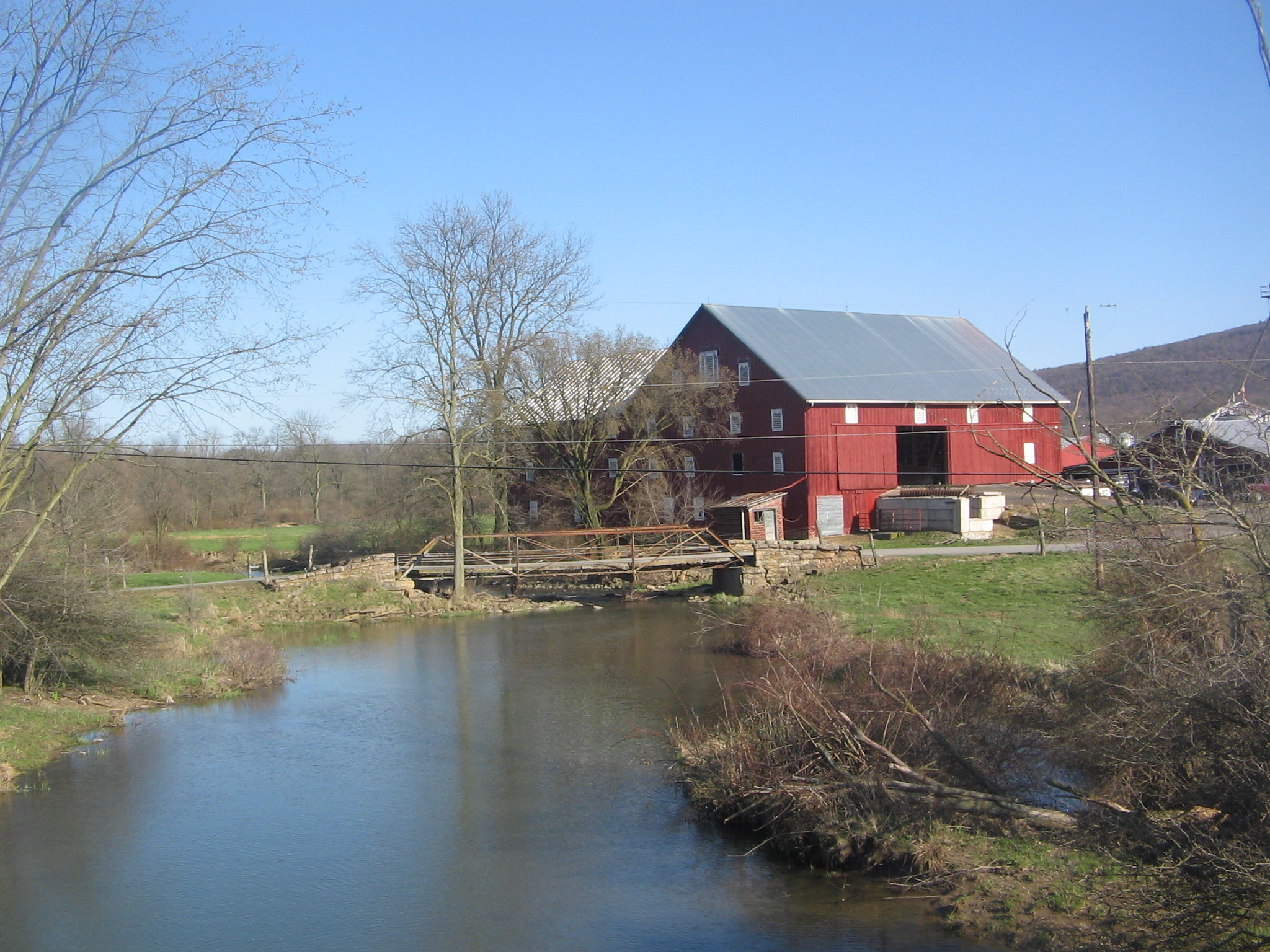 Spring Creek and farm looking southeast from Pennsylvania Route 44 bridge, tributary of White Deer Hole Creek, Gregg Township, Union County, Pennsylvania, USA